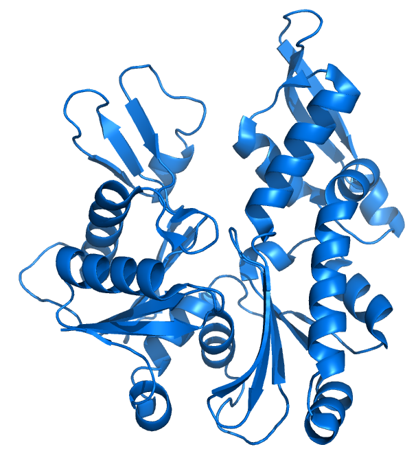 atomic structure of MreB, a prokaryotic structural protein, PDB code 1JCE, cartoon representation, rendered with PyMol